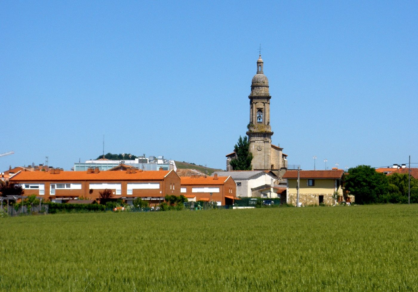 Aspecto de Alegría de Álava. Al fondo, la iglesia parroquial de San Blas (Álava, País Vasco, España)